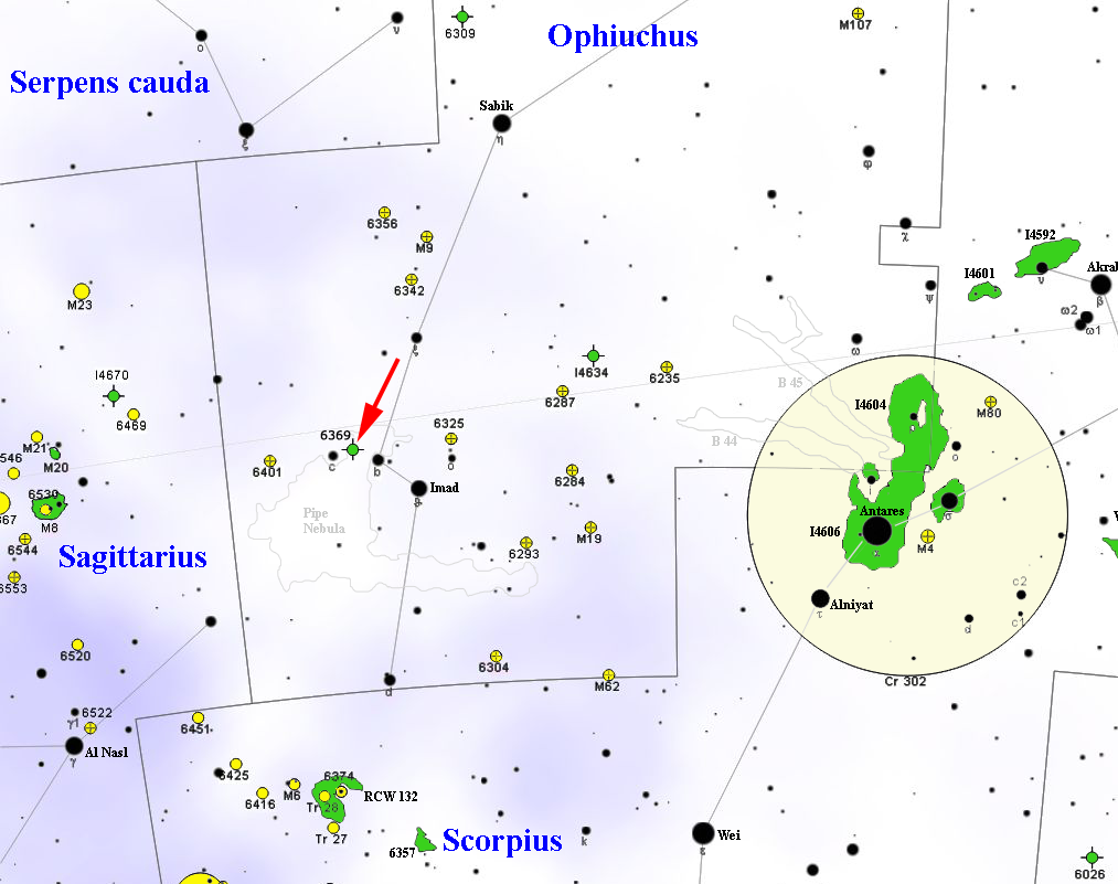 Map of NGC 6369